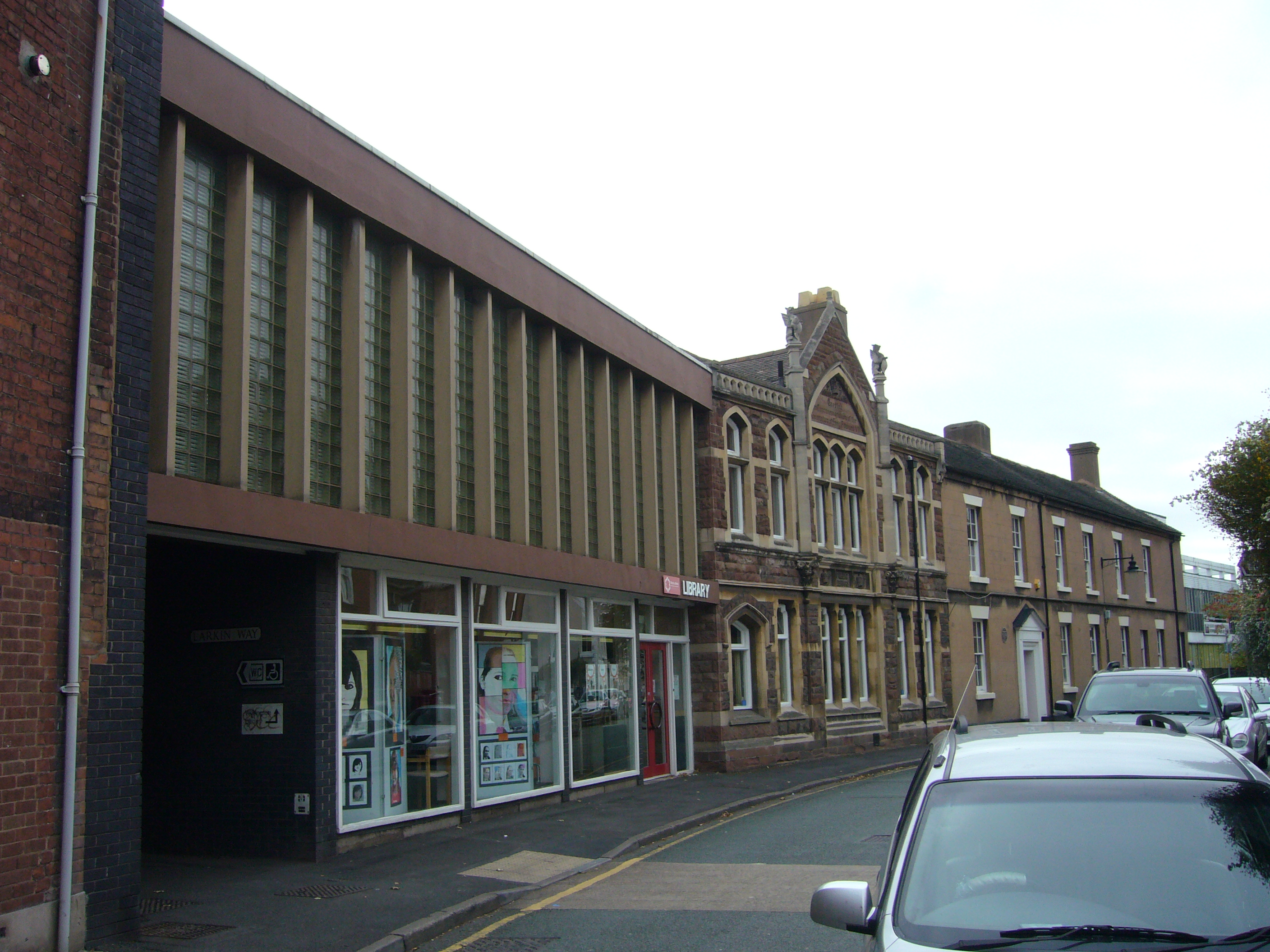 The civic library in Wellington, Shropshire, where the poet Philip Larkin worked, circa 1943 - 1946. The alley to the left of the photo is sign-posted "Larkin Way".